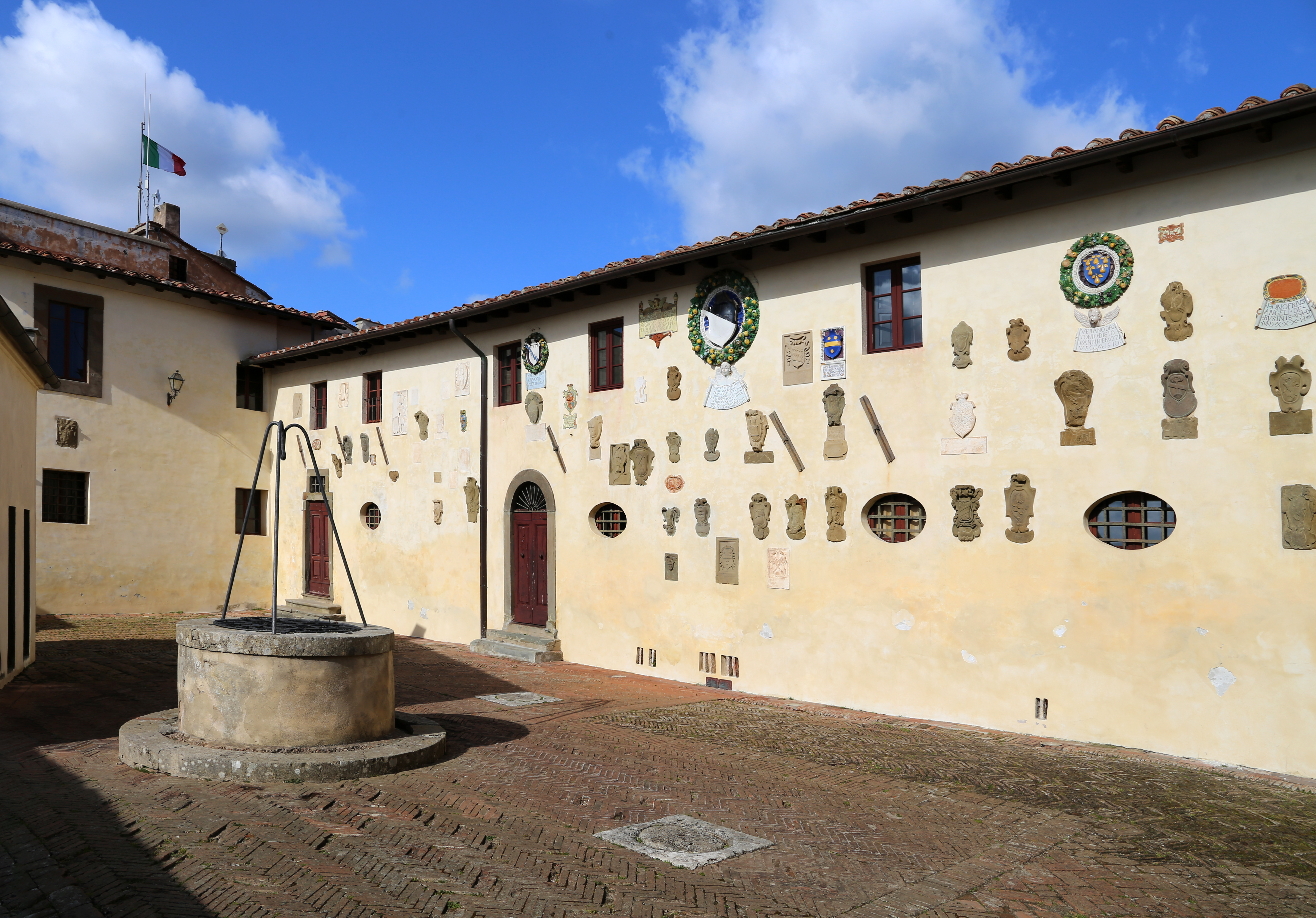 Castello dei Vicari